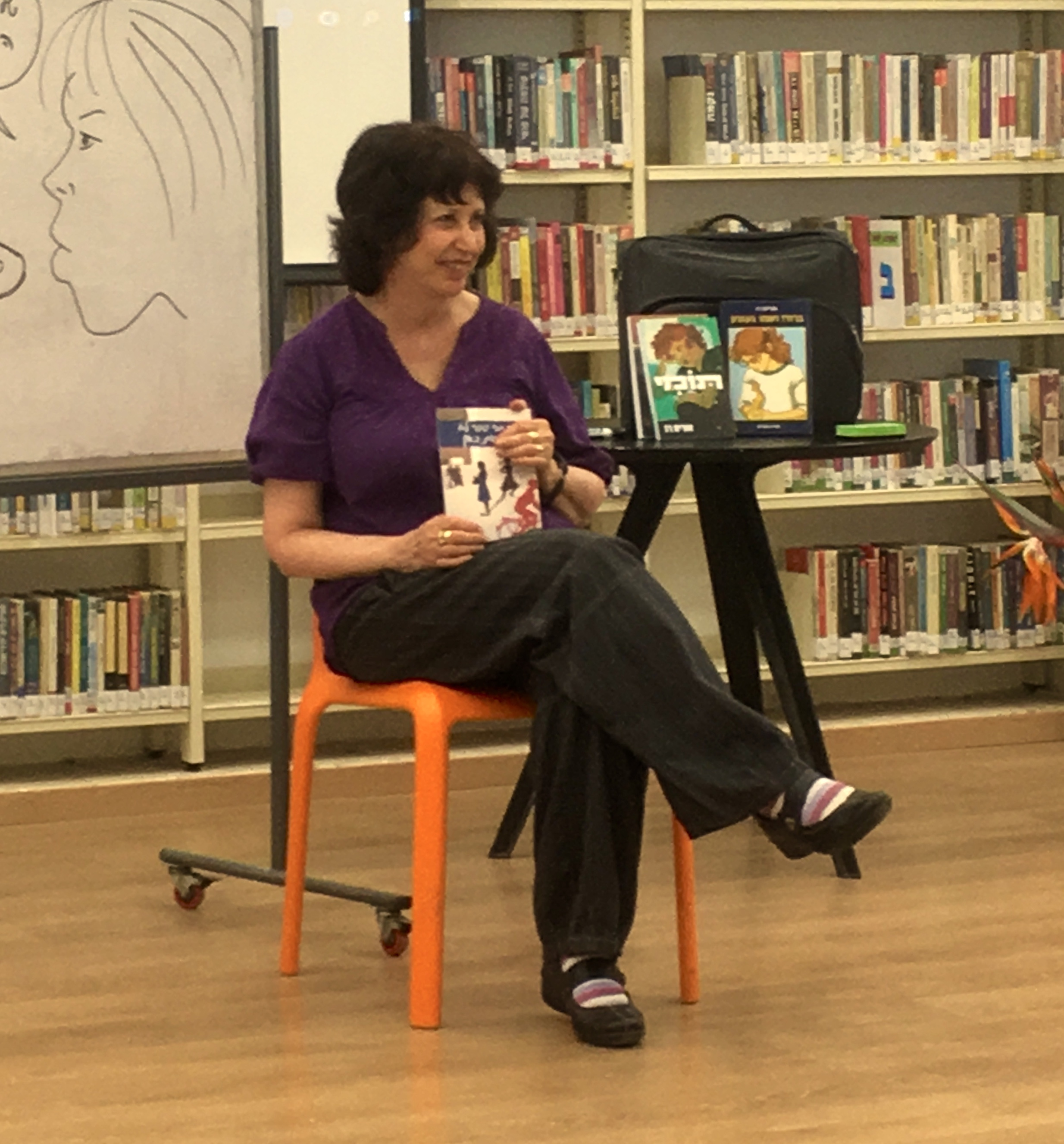 Israeli author Orit Raz in a lecture to high school librarians